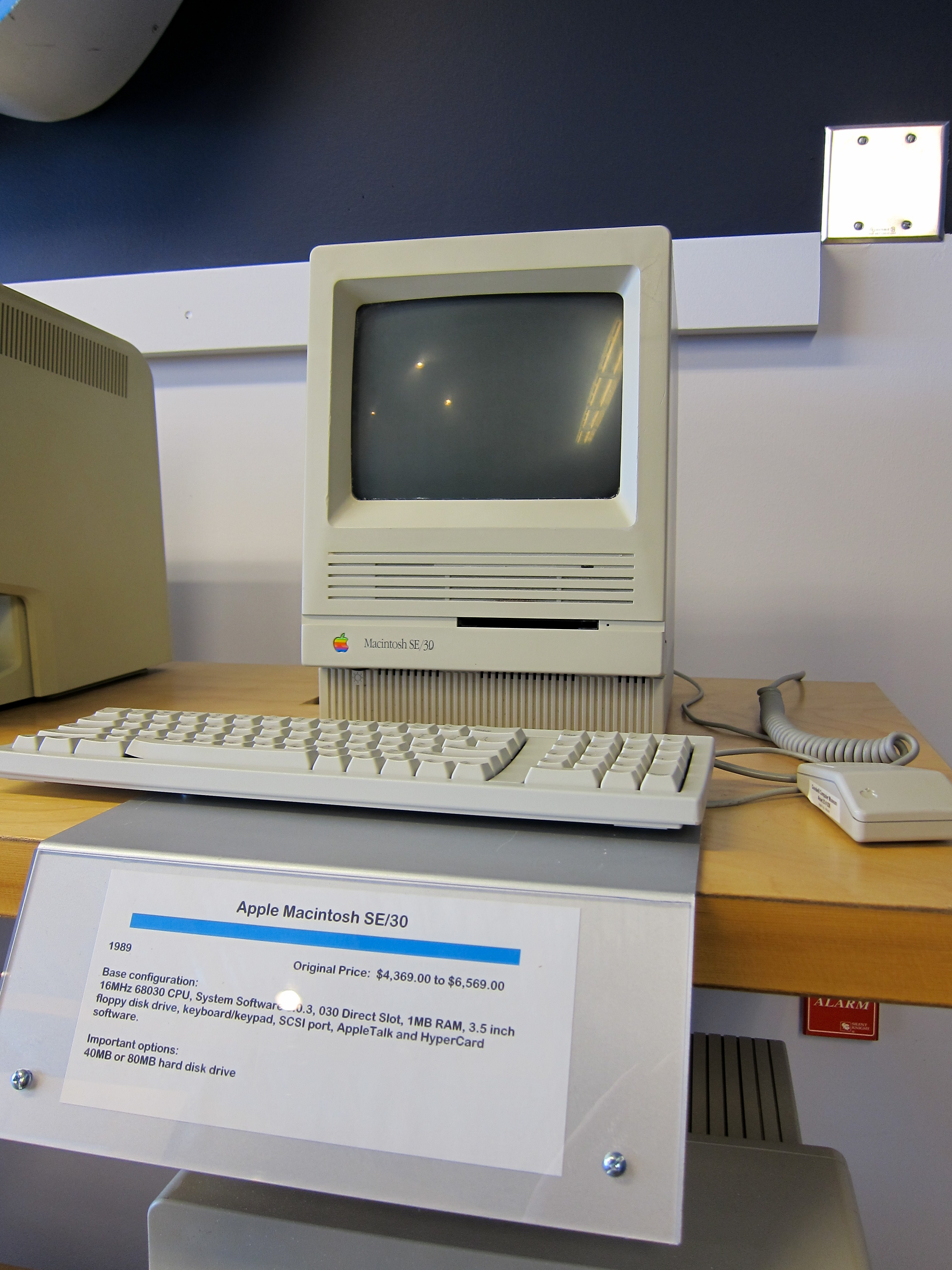 Apple Macintosh SE/30 1989 Original Price: $4,369.00 to $6,569.00 Base configuration 16MHz 68030 CPU, System Software 2.0.3, 030 Direct Slot, 1MB RAM, 3.5 inch floppy disk drive, keyboard/keypad, SCSI port, AppleTalk and HyperCard Important options 40MB or 80MB hard disk drive